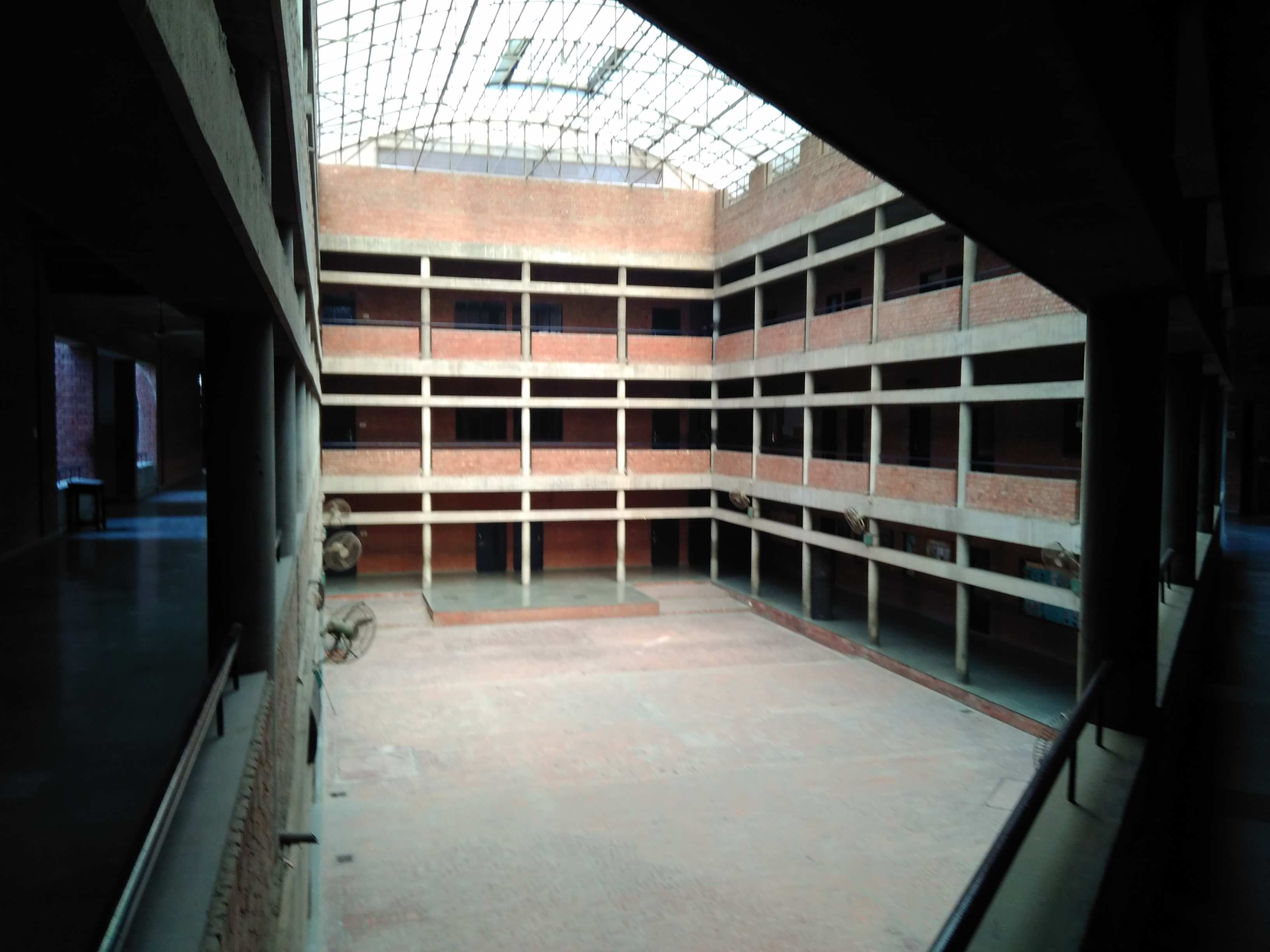 The Quadrangle which forms the heart of the school building